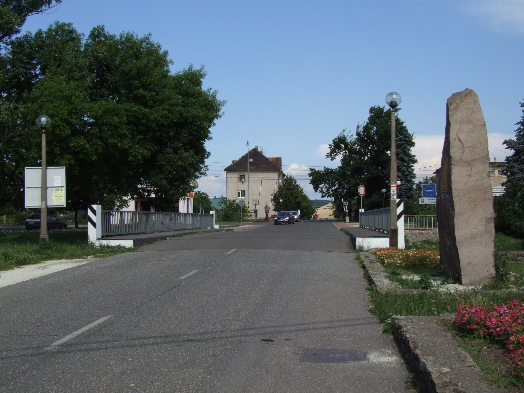 Sátoraljaújhely - Slovenské Nové Mesto - former border crossing point. View from Hungary